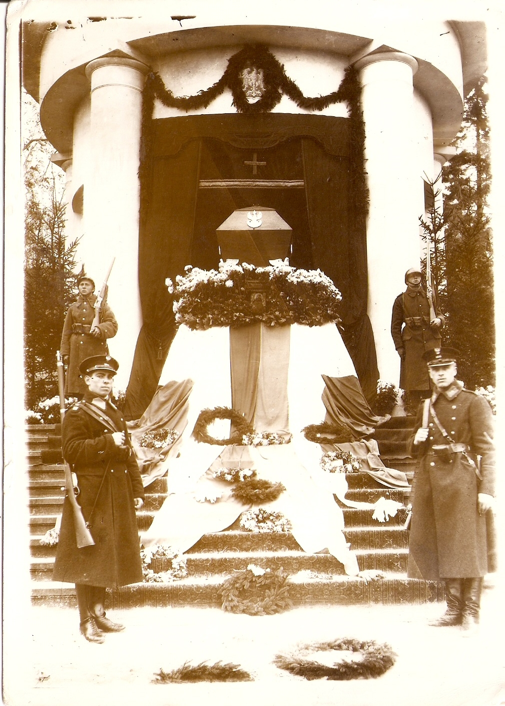 Unknown Soldier in Lwów in a chapel of The Cemetery of the Defenders of Lwów.